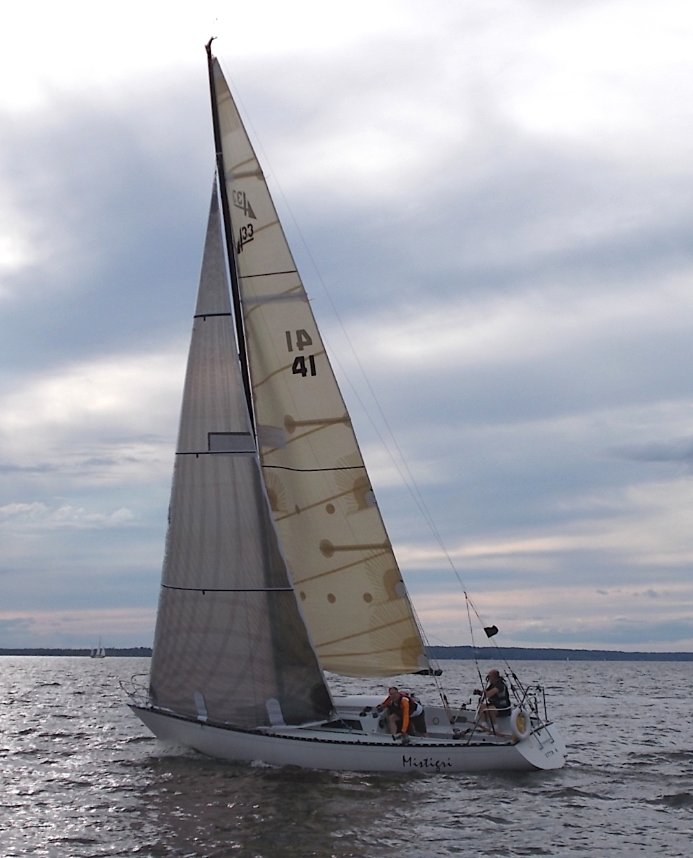 Abbott 33 sailboat Mistigri on Lac Deschênes, part of the Ottawa River, Ottawa, Ontario, Canada